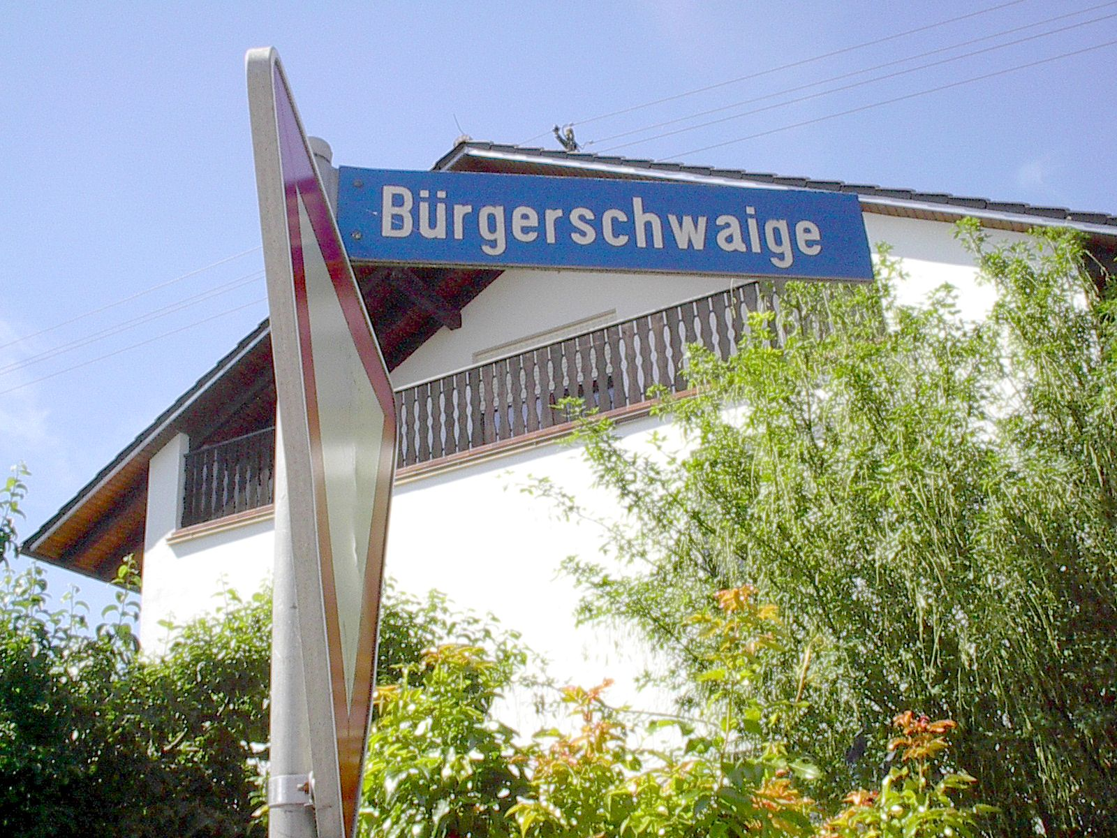 Die Bürgerschwaige im Stadtteil Heinrichsheim.